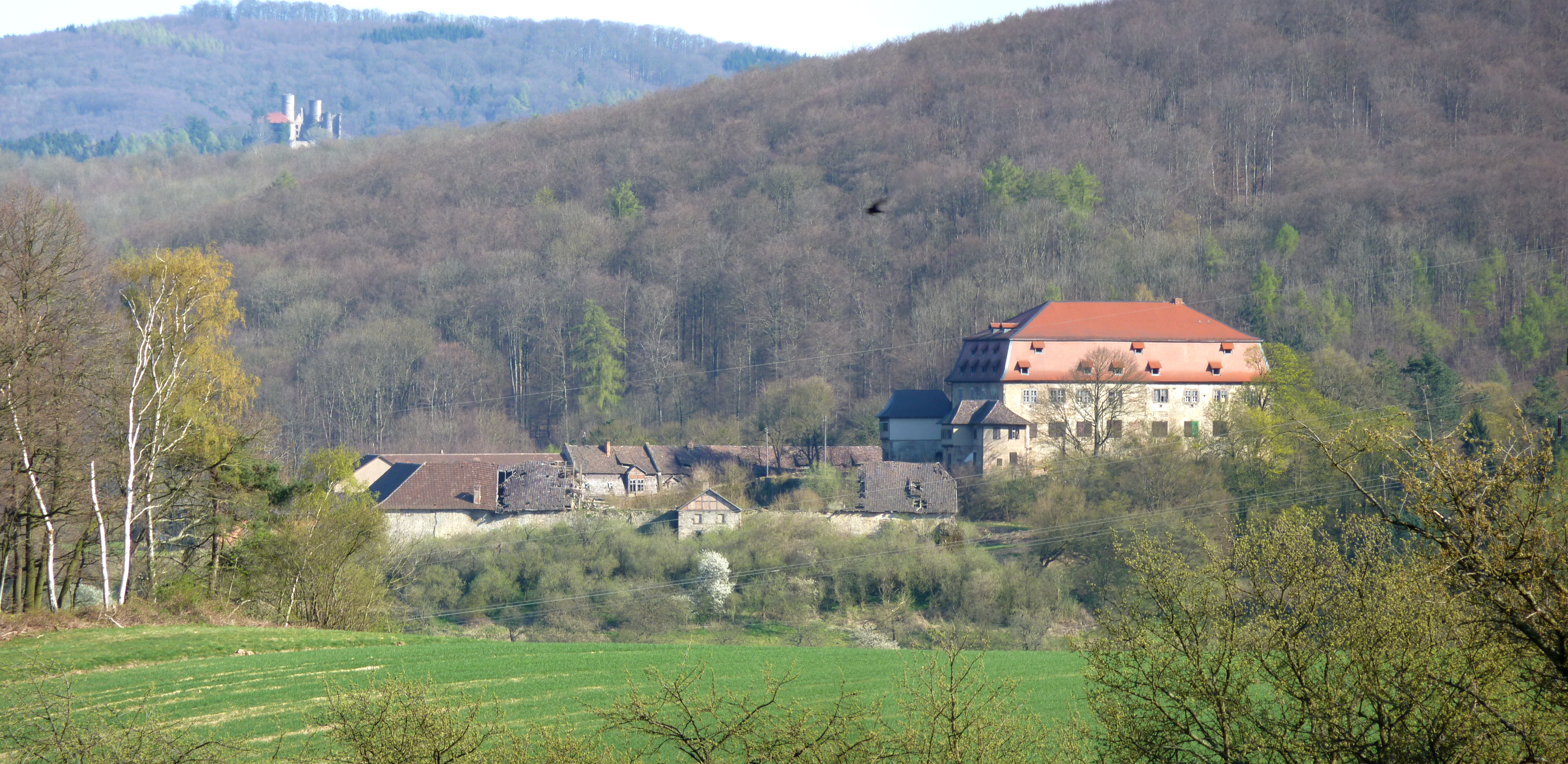 Anstein castle in Neu-Eichenberg, Hesse, Germany